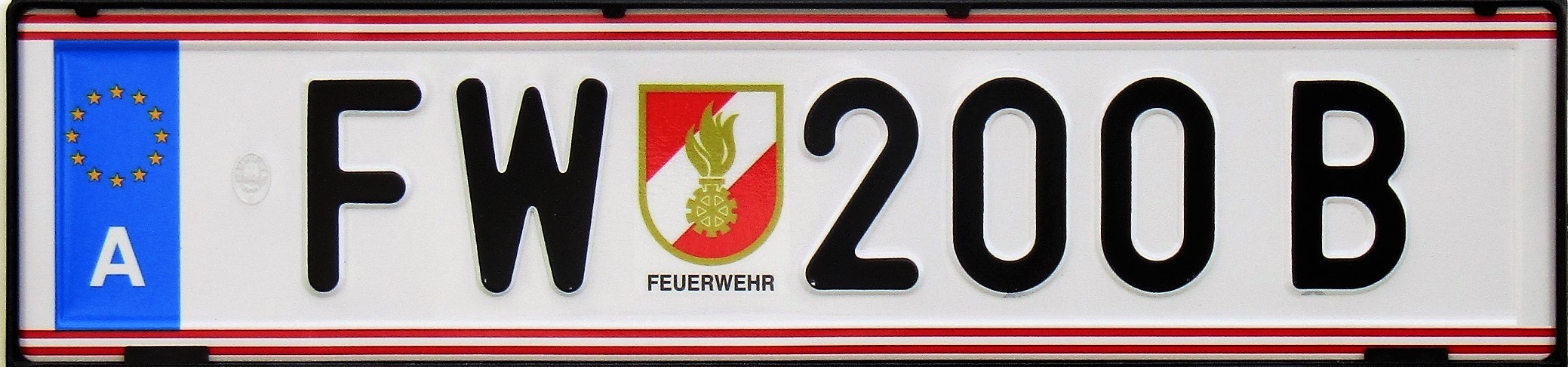 Austria 2020 fire brigade license plate (Bregenz). These special plates were introduced February 1st 2020.